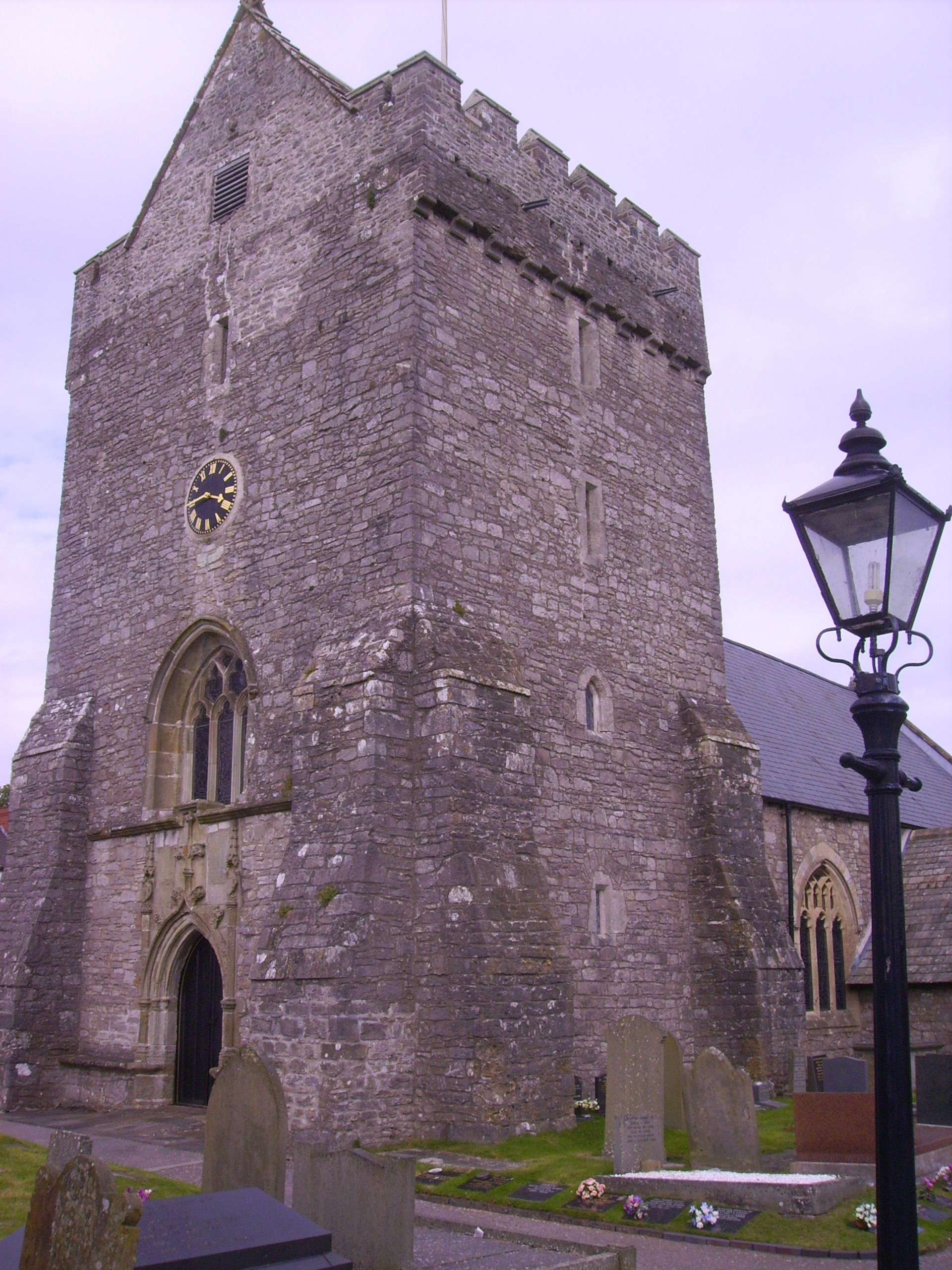 St. Johns Church, Newton, Bridgend, Wales